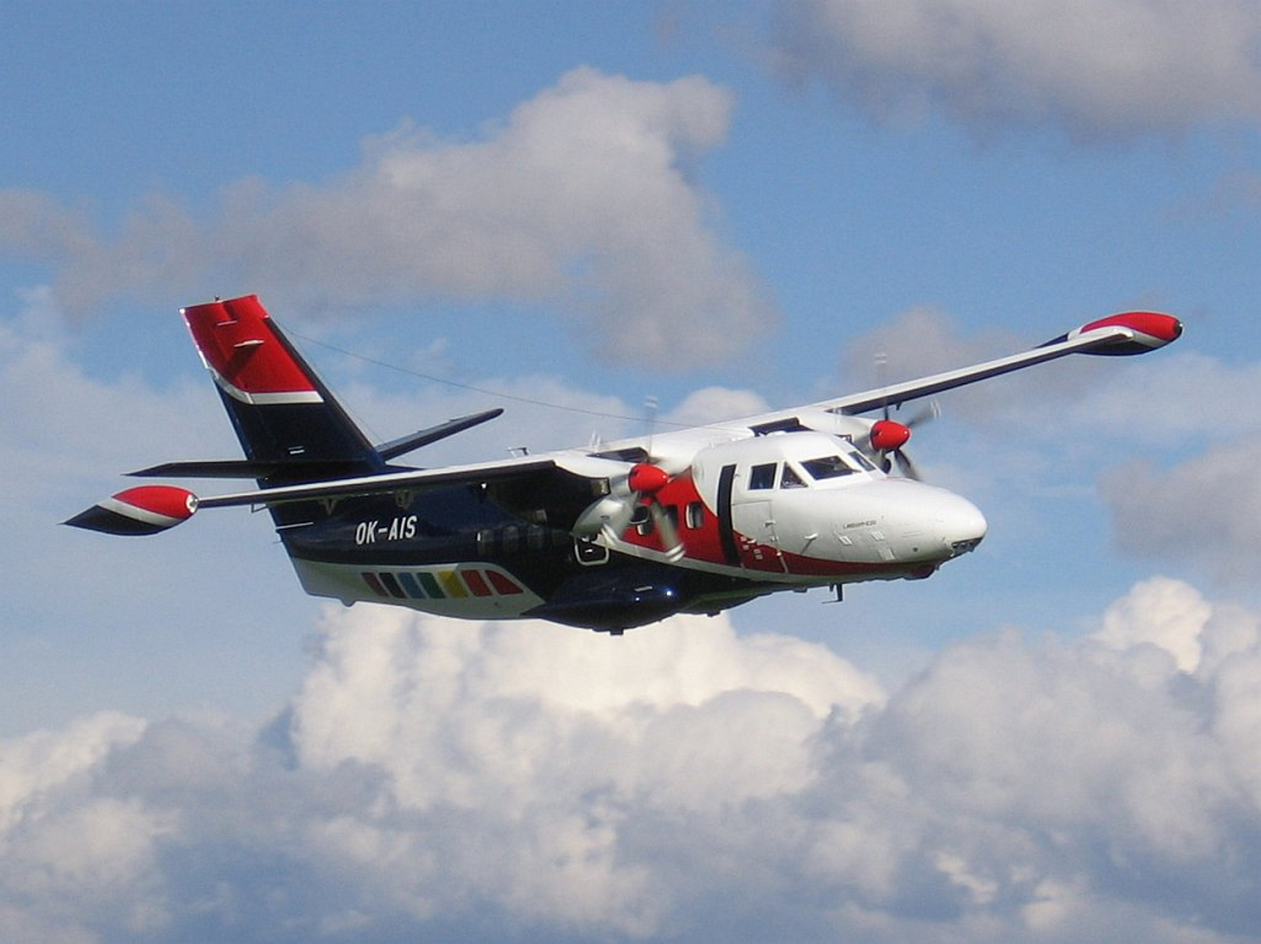 L410 UVP-E20